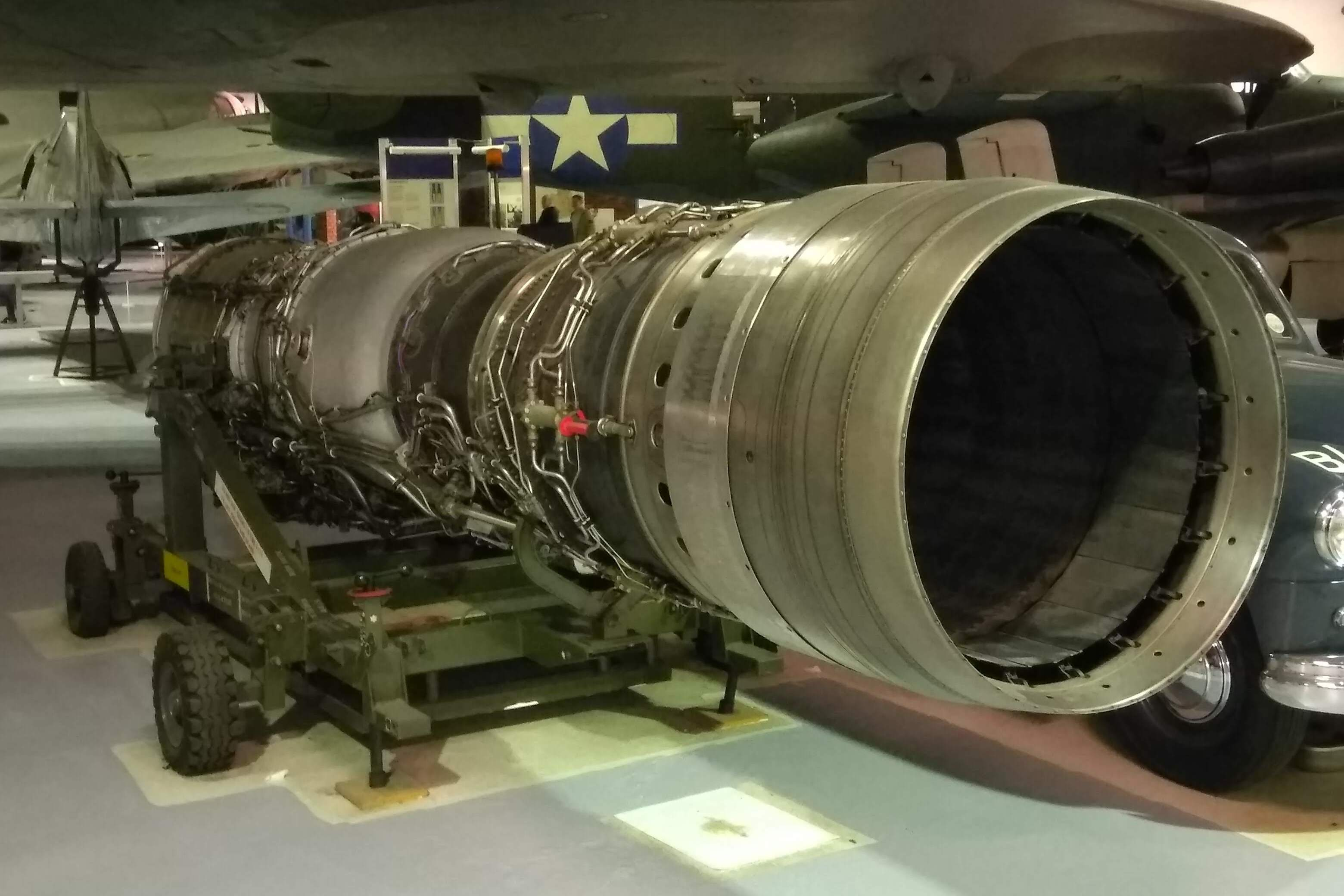 A Rolls-Royce Spey Mk 202 turbofan engine at the RAF Museum in London